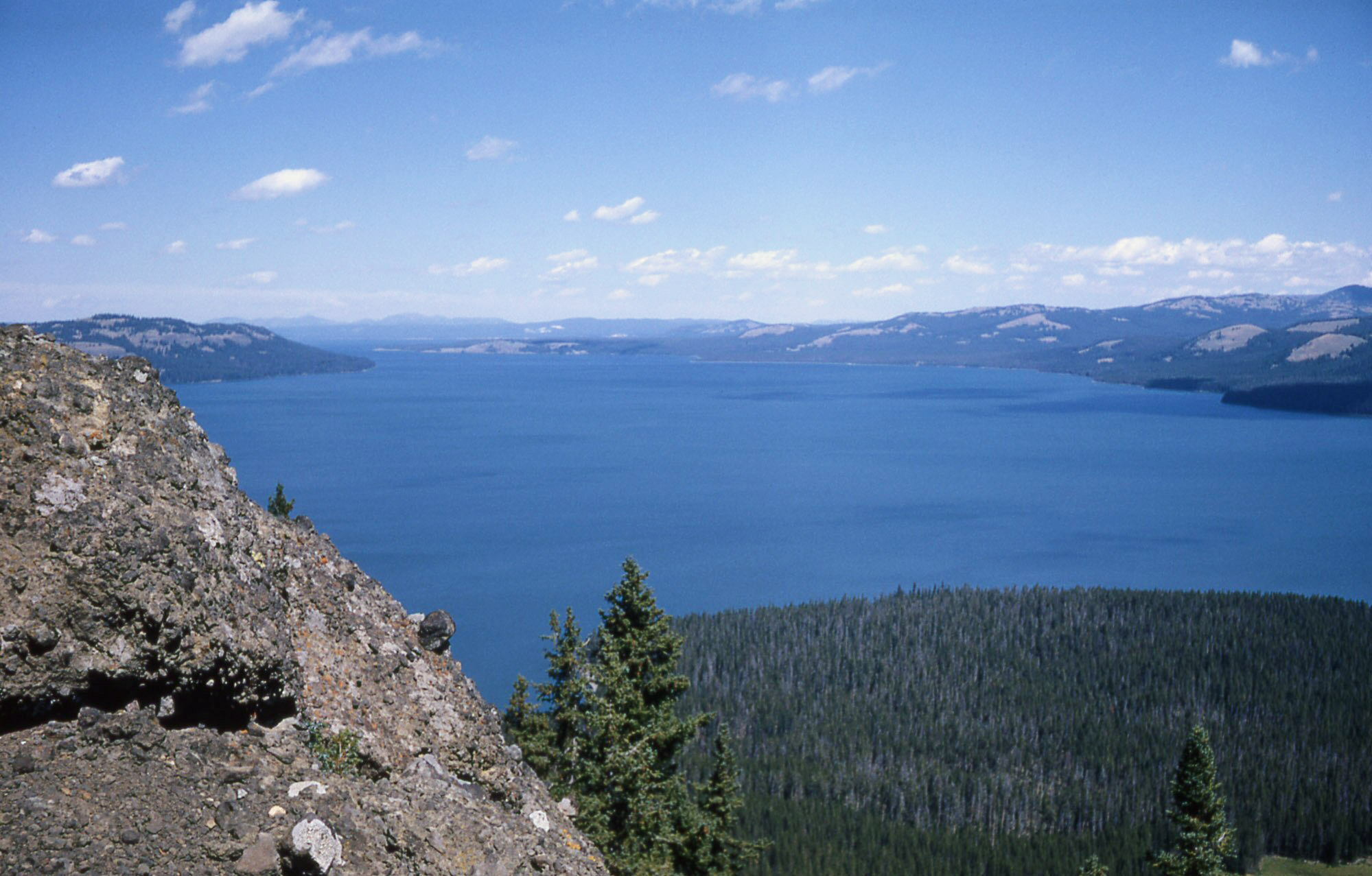 Yellowstone Lake from Two Ocean Plateau, Yellowstone National Park, Wyoming, 1963